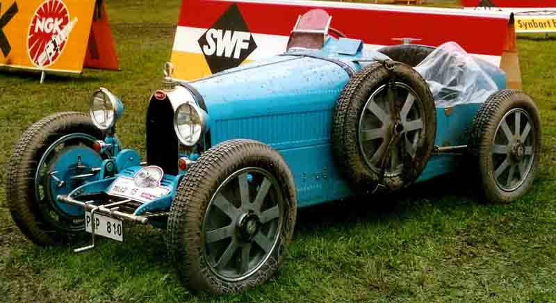 Bugatti Type 37A Sports 1929